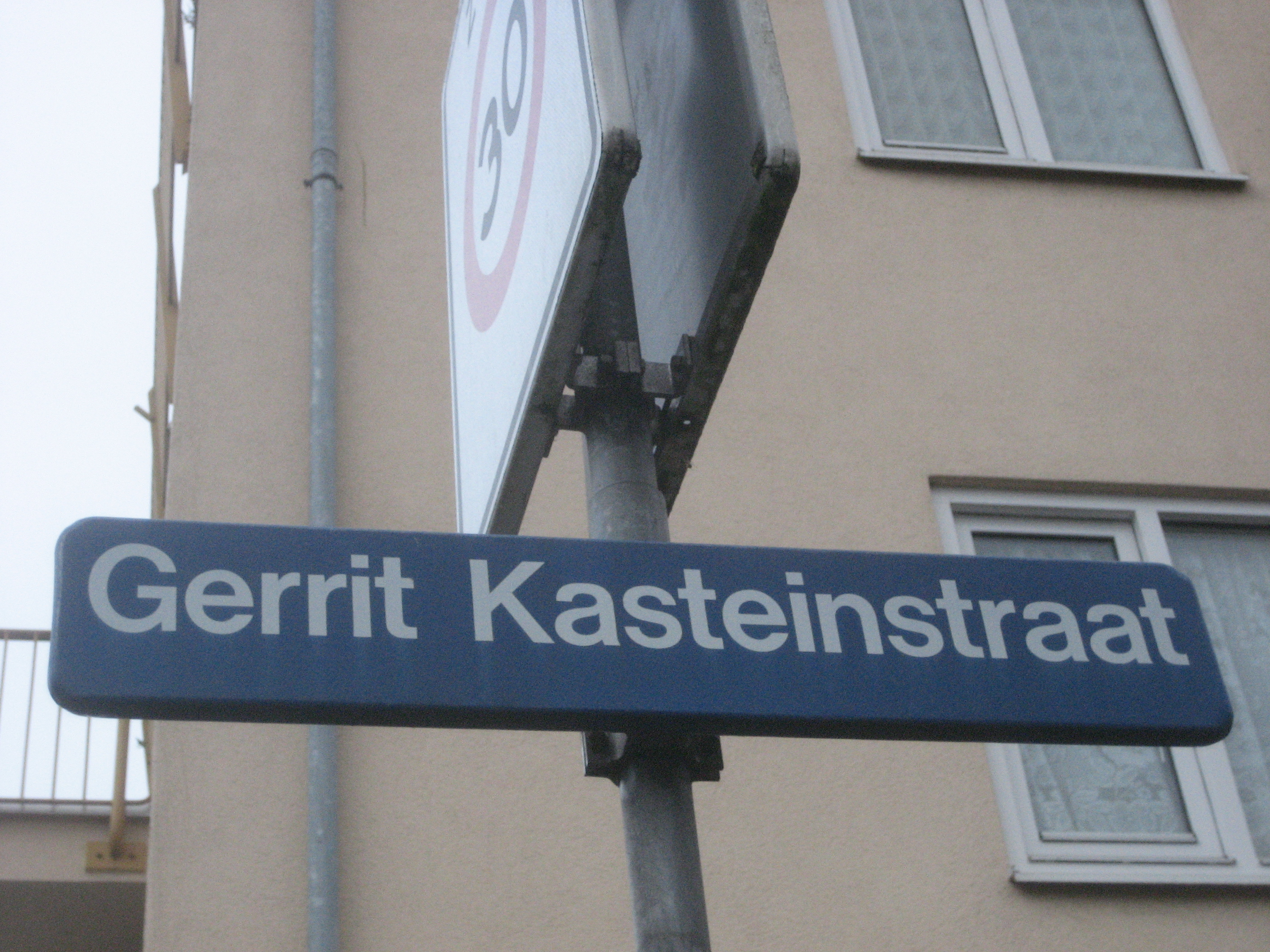 Gerrit Kasteinstraat, Leiden (the Netherlands)